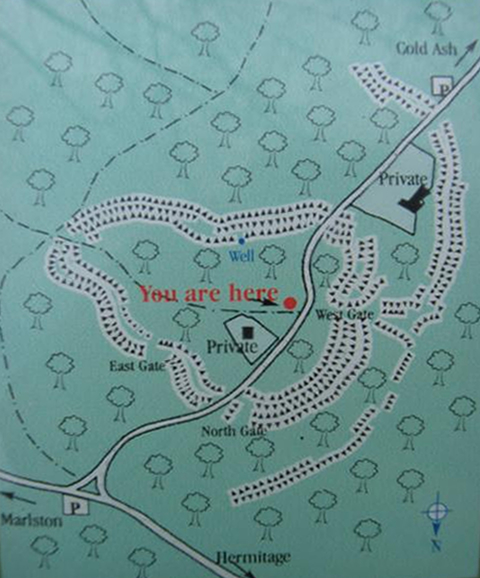 Grimsbury Castle Iron Age Hill Fort. This is supplementary to the other submissions for this grid square and explains exactly where the photograph was taken. This plaque is in the south western section of the grid square.